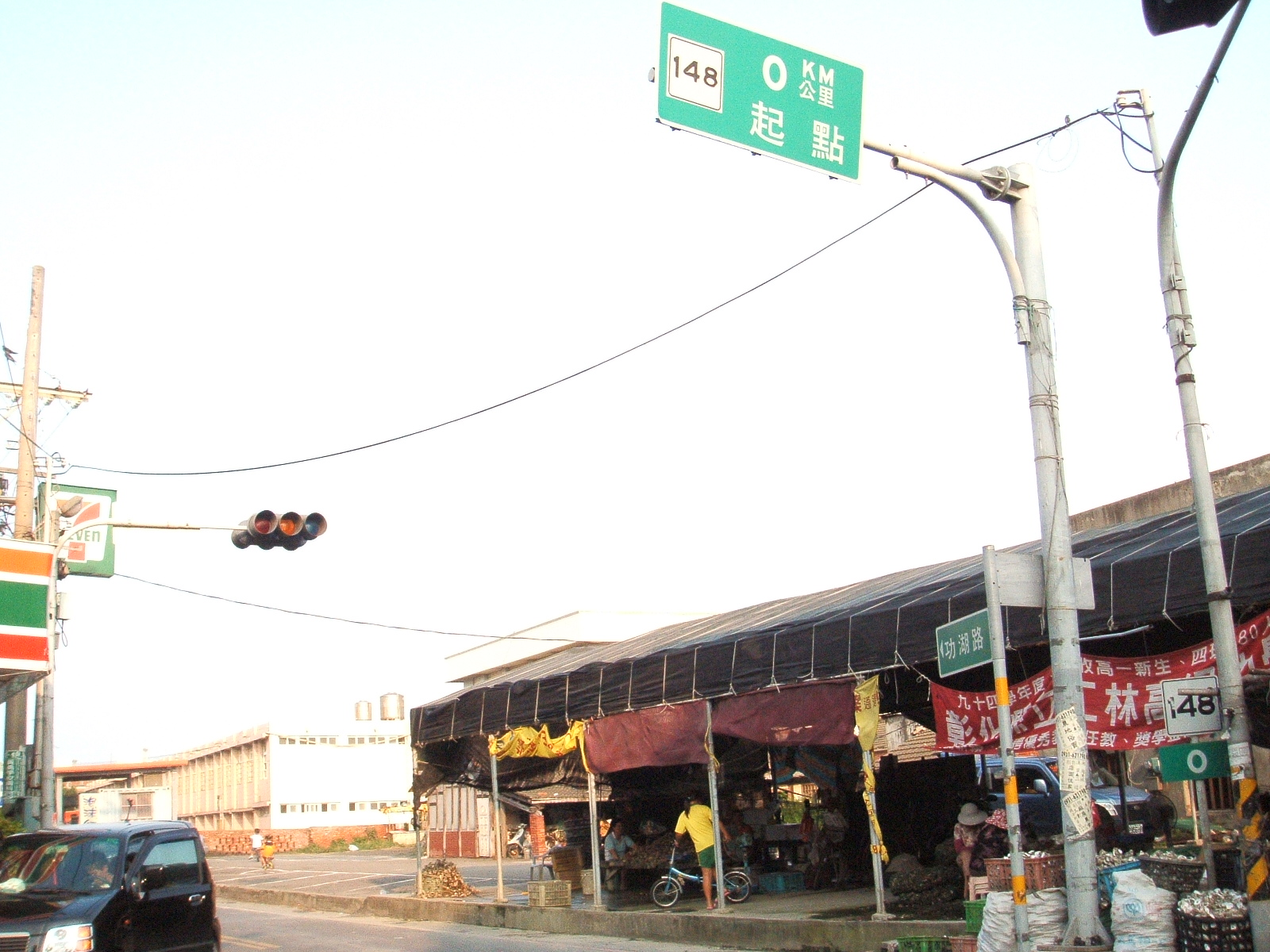 Start of County Highway No.148 at Wang-Gong in Fangyuan Township,Changhua County.